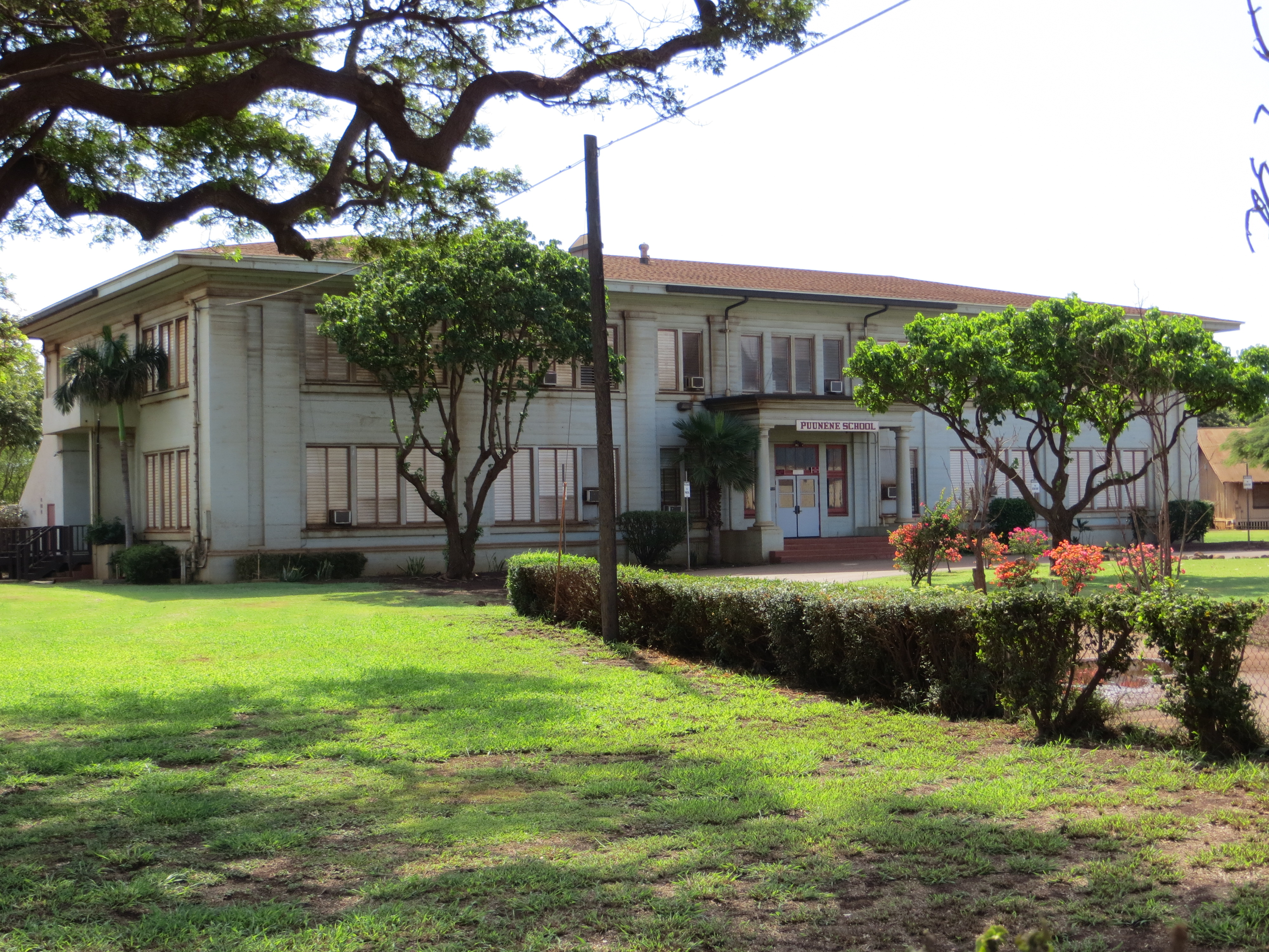 Puunene School on Camp 5 Road, Puunene, Maui, Hawaii, where science teacher Soichi Sakamoto's Three-Year Swim Club practiced for the Olympics in 1937-40